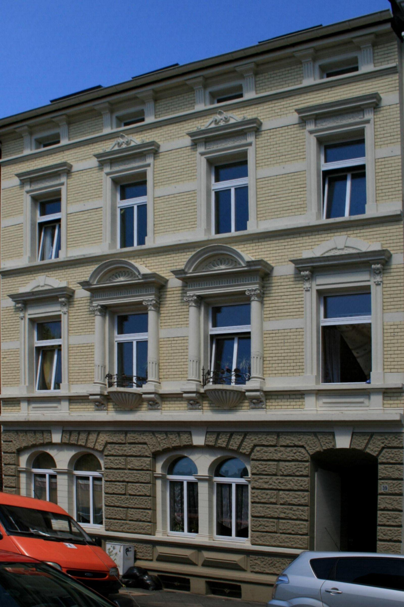 Cultural heritage monument No. M 005 in Mönchengladbach